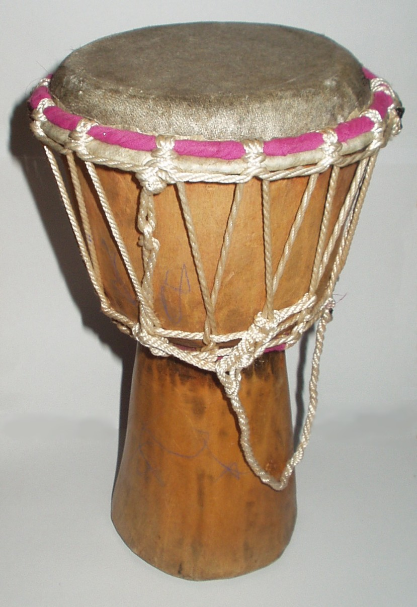 Photo of a Djembe